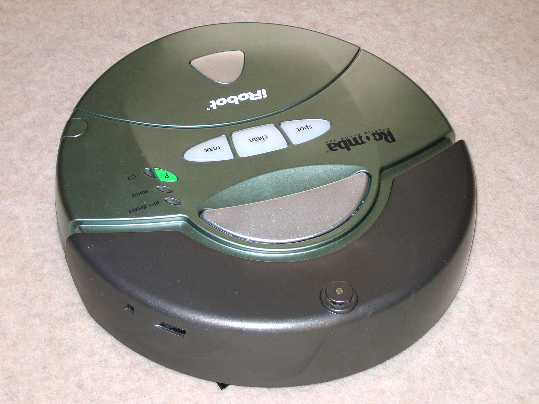 This is an EU roomba, purchased in late 2005. Though it is not marketed as a 'Roomba Sage', and it is supplied with a different set of accessories, it is visually identical to the American Roomba Sage model.